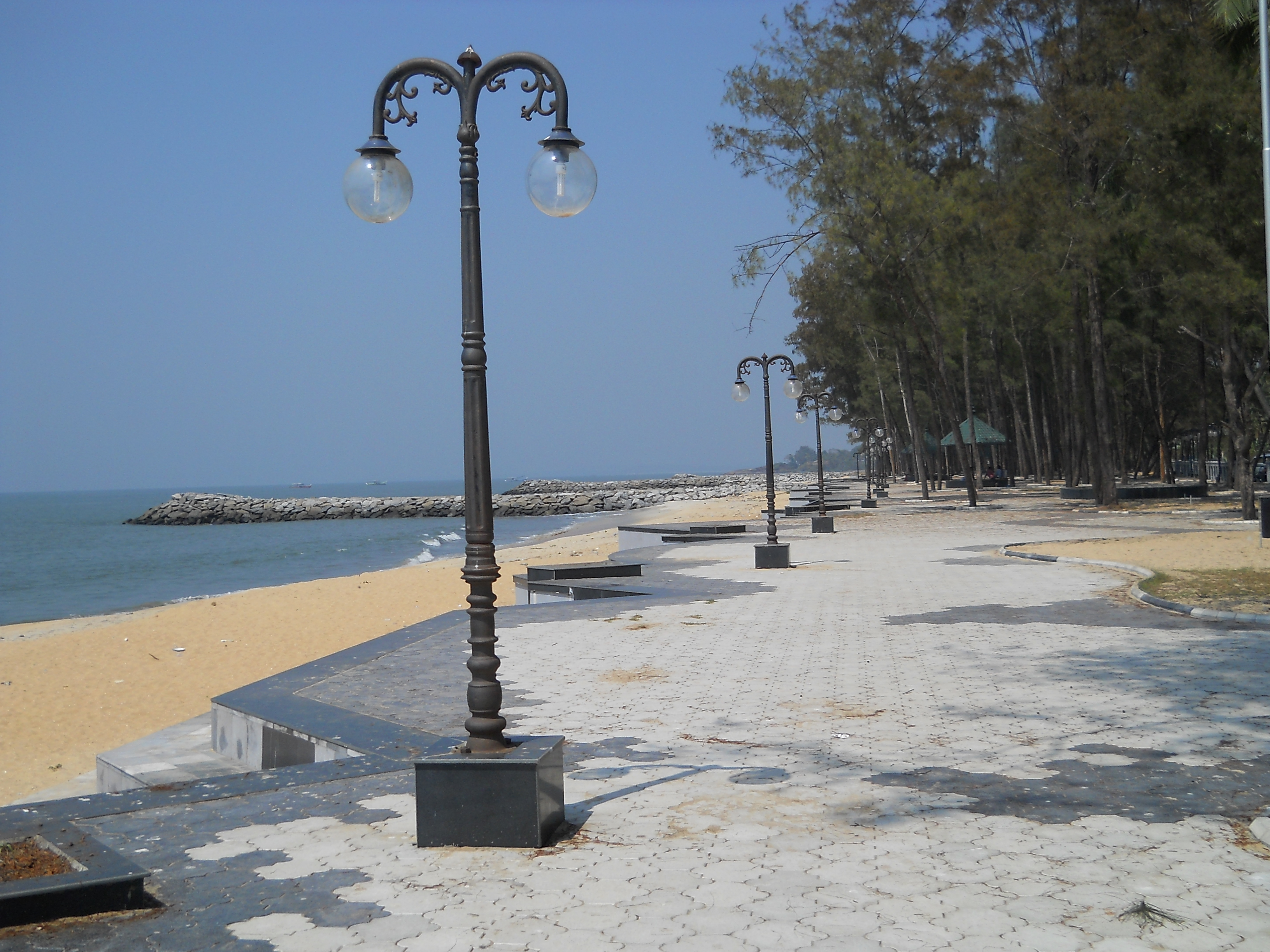 kappad beach